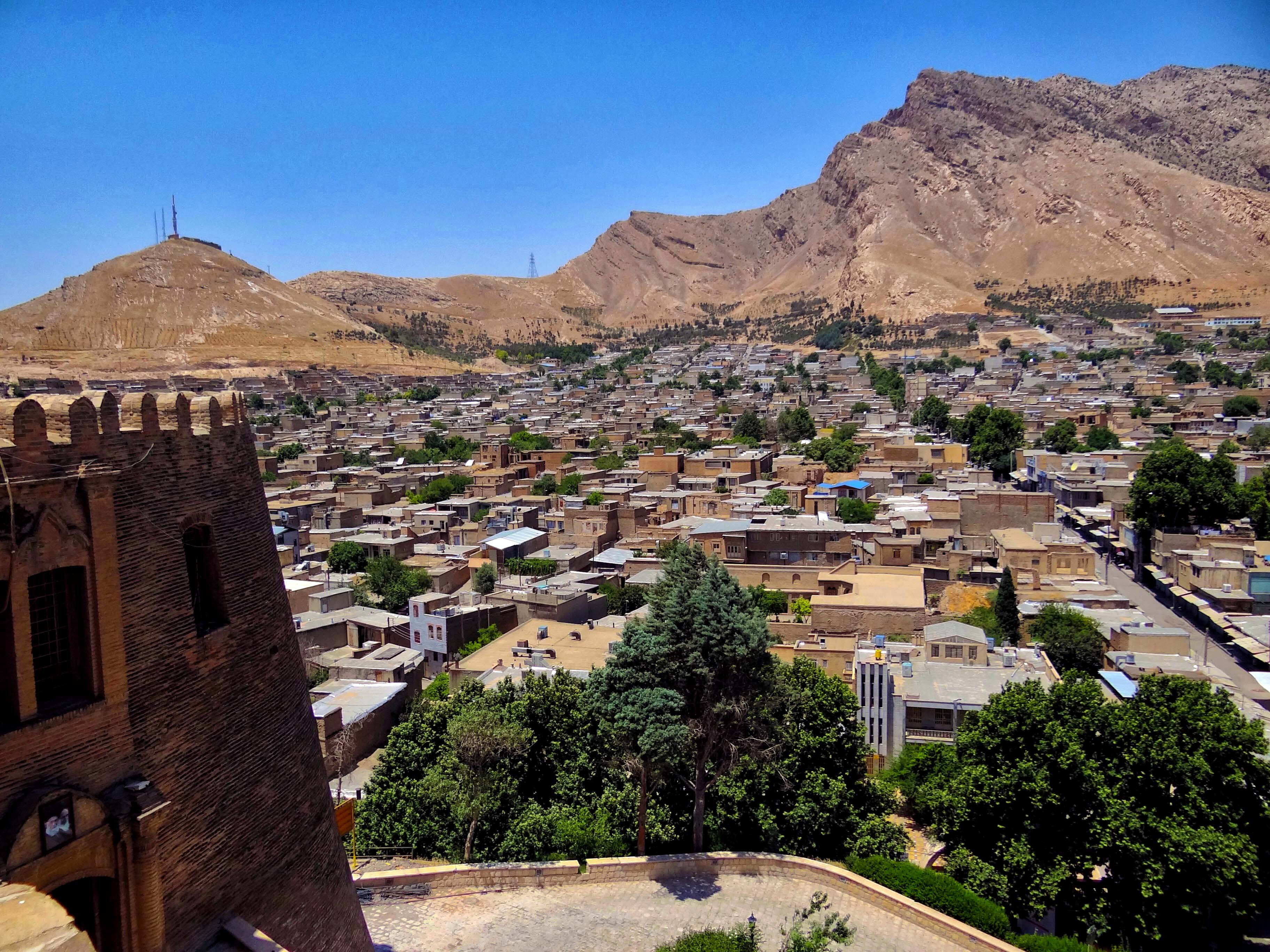 View over Khorramabad from Falak-ol-Aflak Castle - Khorramabad - Western Iran - 02 (7423633344).jpg